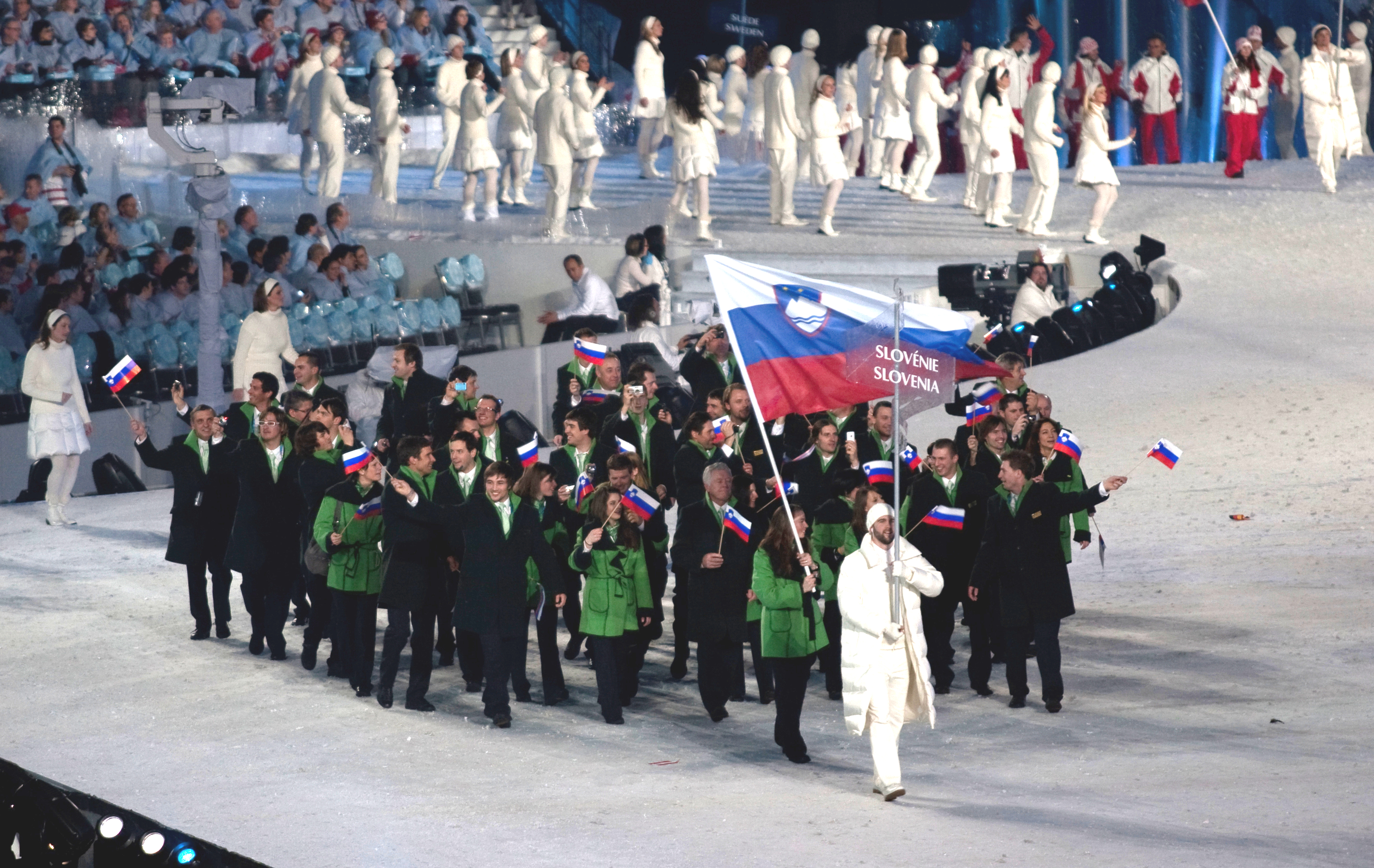 Slovenia at 2010 Winter Olympics opening ceremony.